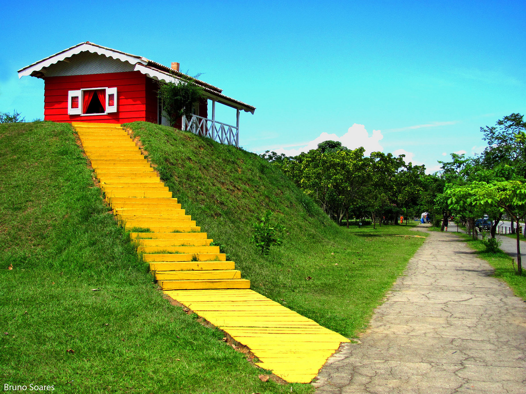 House in Ipatinga, Minas Gerais, Brazil.